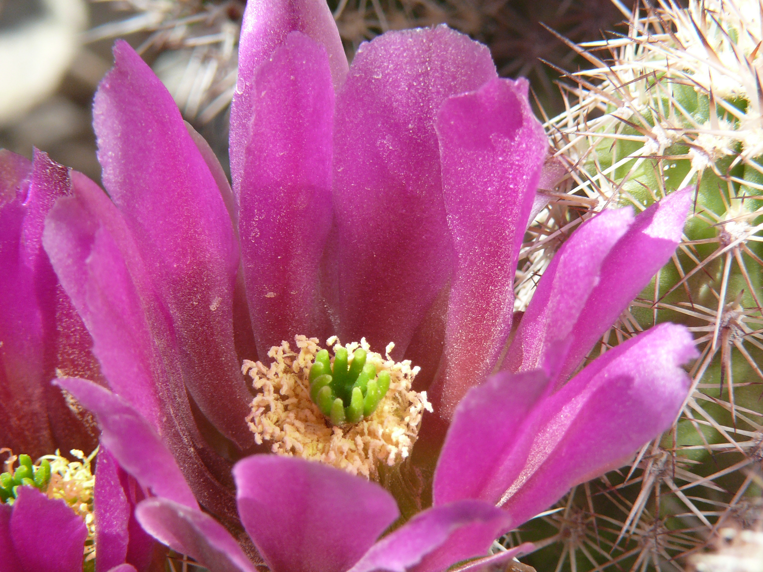 Echinocereus bonkerae, hedgehog cactus. Taken at the Arizona Sonoran Desert Museum, Tucson, AZ